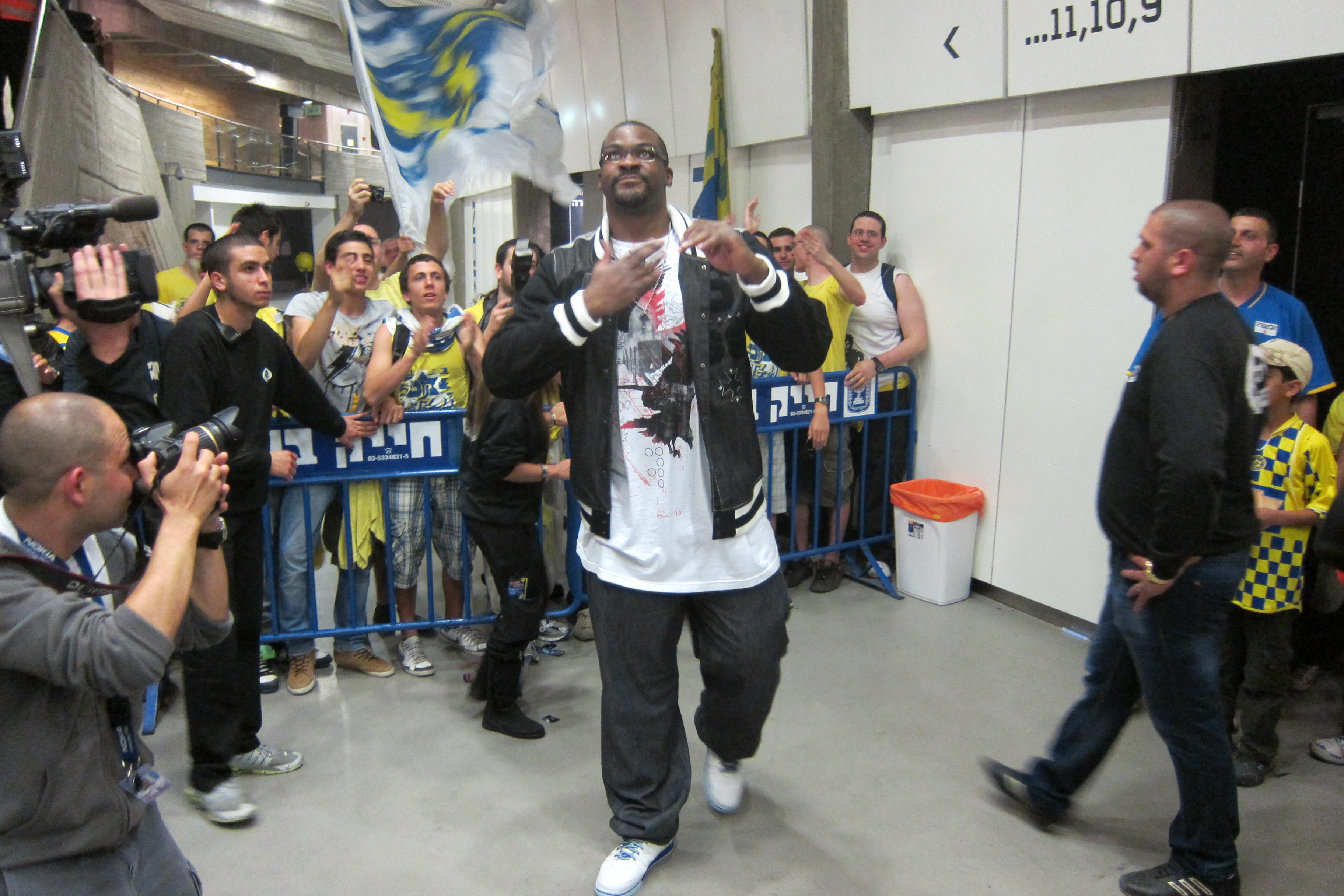 SOFOKLIS SCHORTSANITIS, Maccabi Electra Tel Aviv Player for the season of 2010-2011